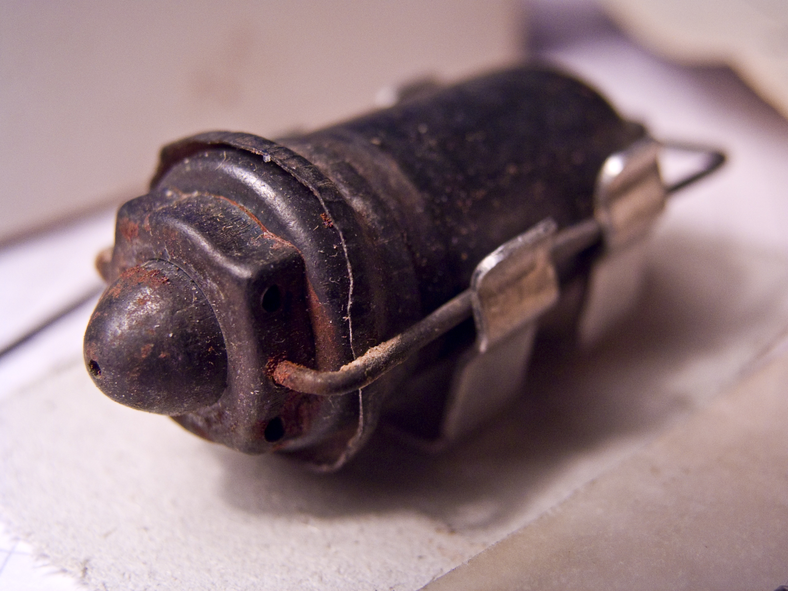 Jetex, jet engine for very small vehicles. Close view.